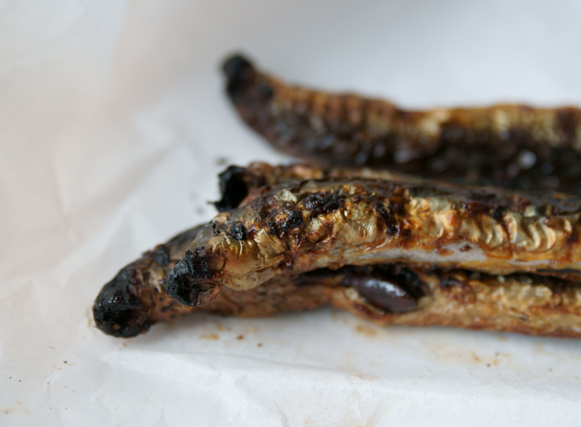 European river lampreys (Lampetra fluviatilis).